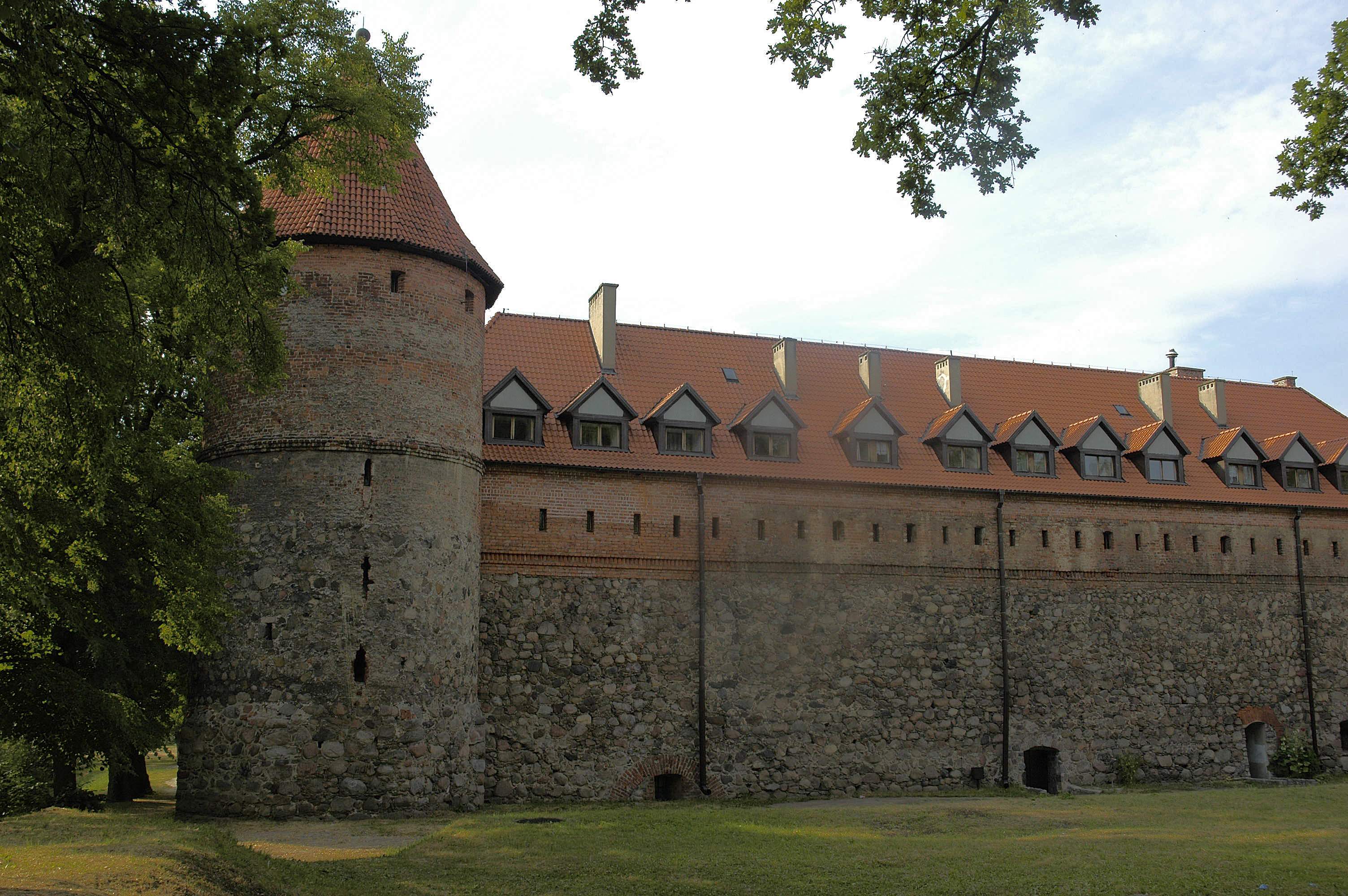 Bytów Castle